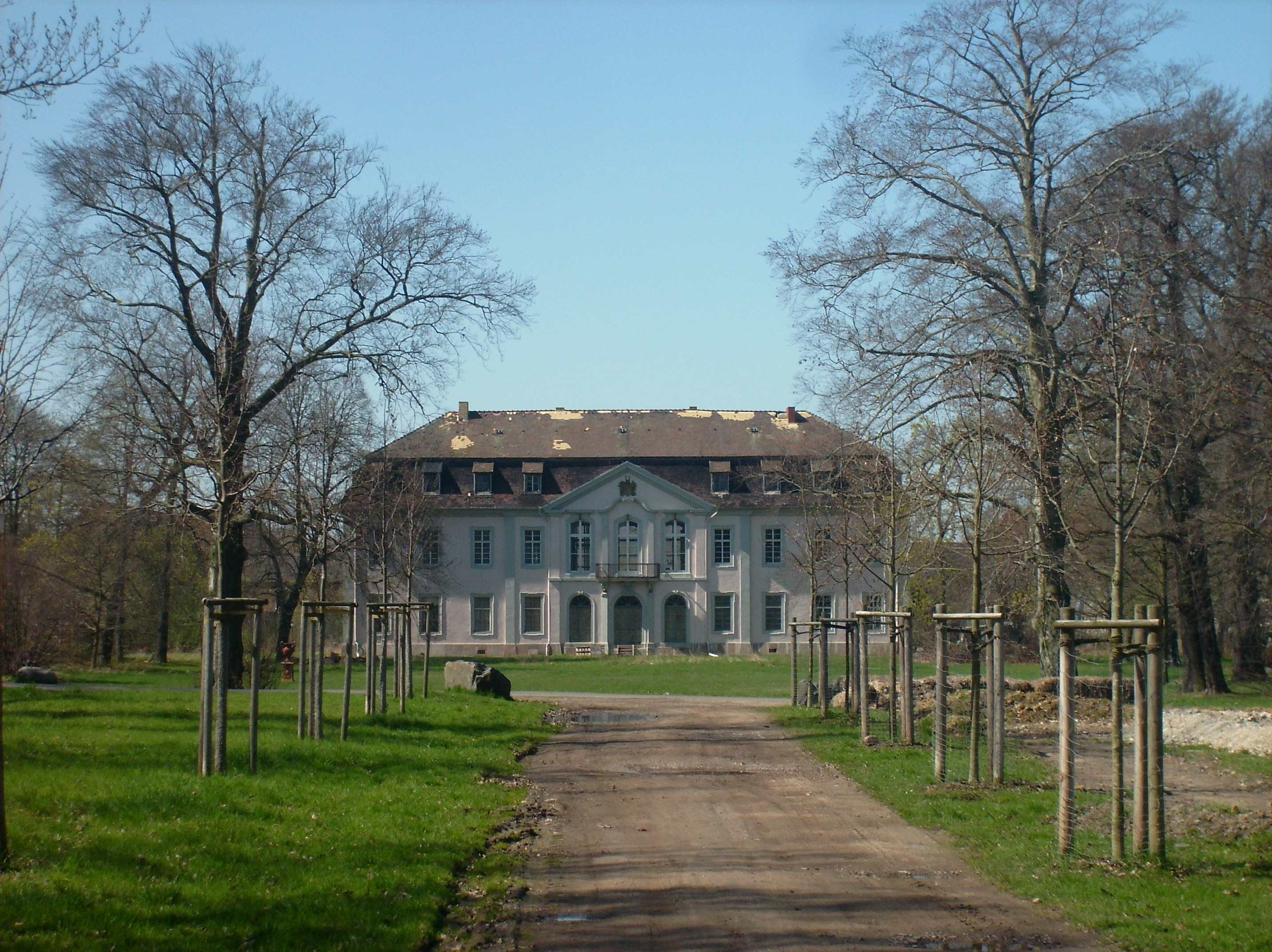 Otterwisch Castle (Leipzig district, Saxony)